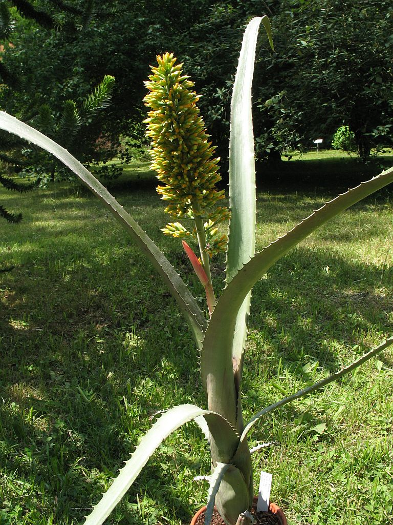 Aechmea tocantina, in cultivation at the Botanical Garden of Heidelberg, Germany.